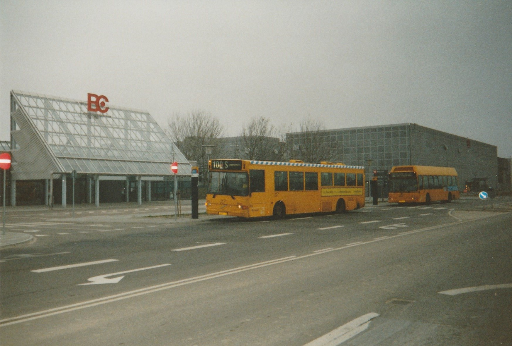 Connex bus 5009 as HT bus line 100S and Connex 5204 as line 30 at Bella Center in Copenhagen.